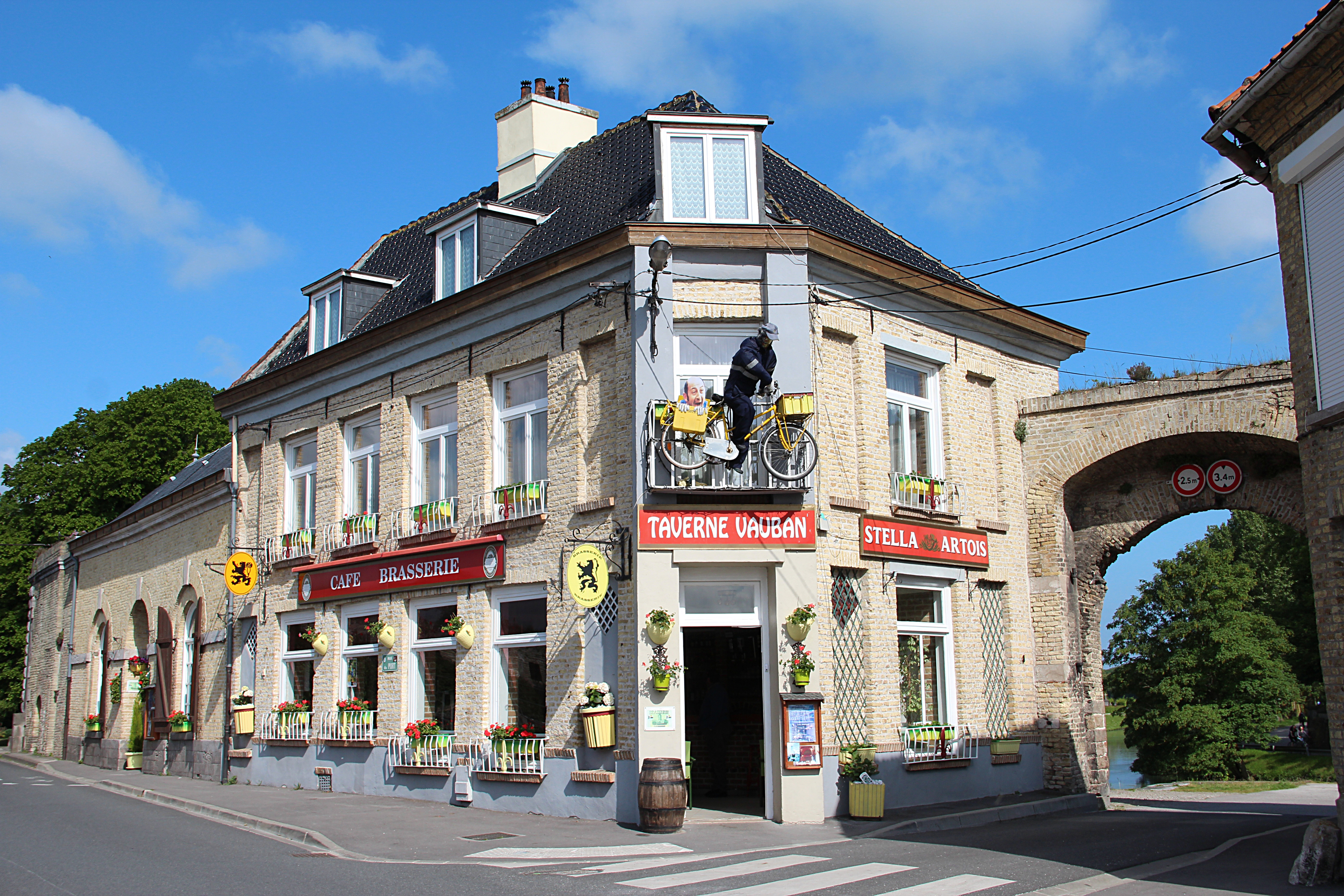 Tavern "Vauban", located 48 rue du Port in Bergues (Nord department, France).